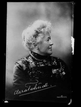 Norwegian author Clara Tschudi.